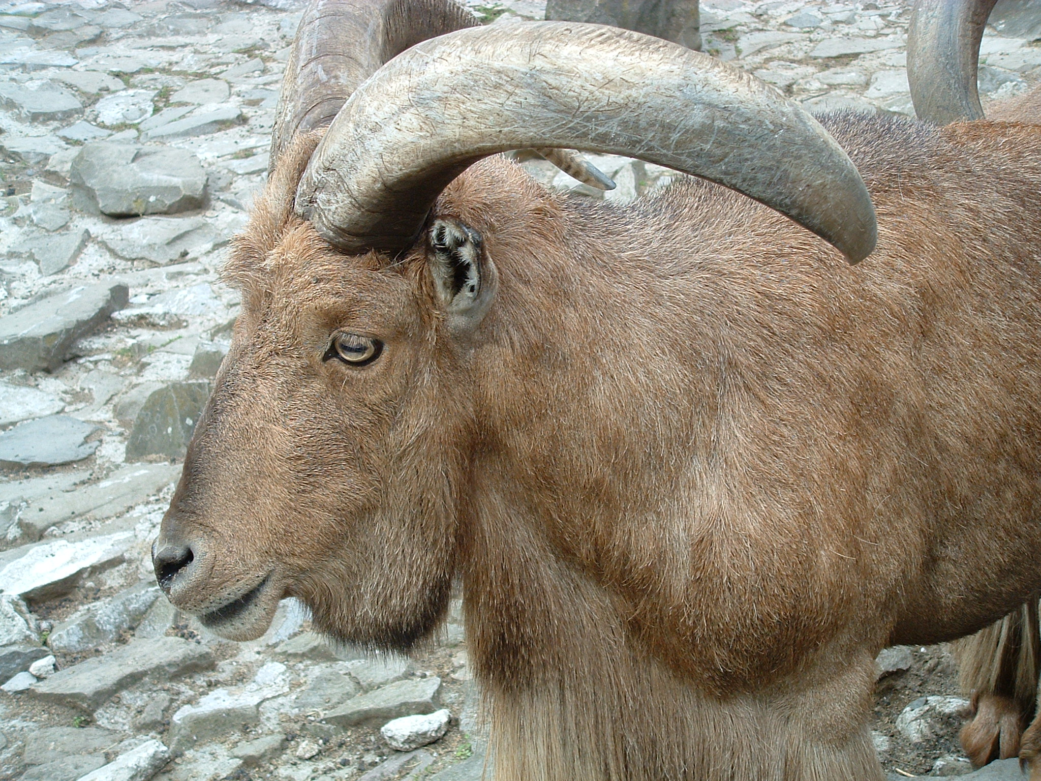 Aoudad